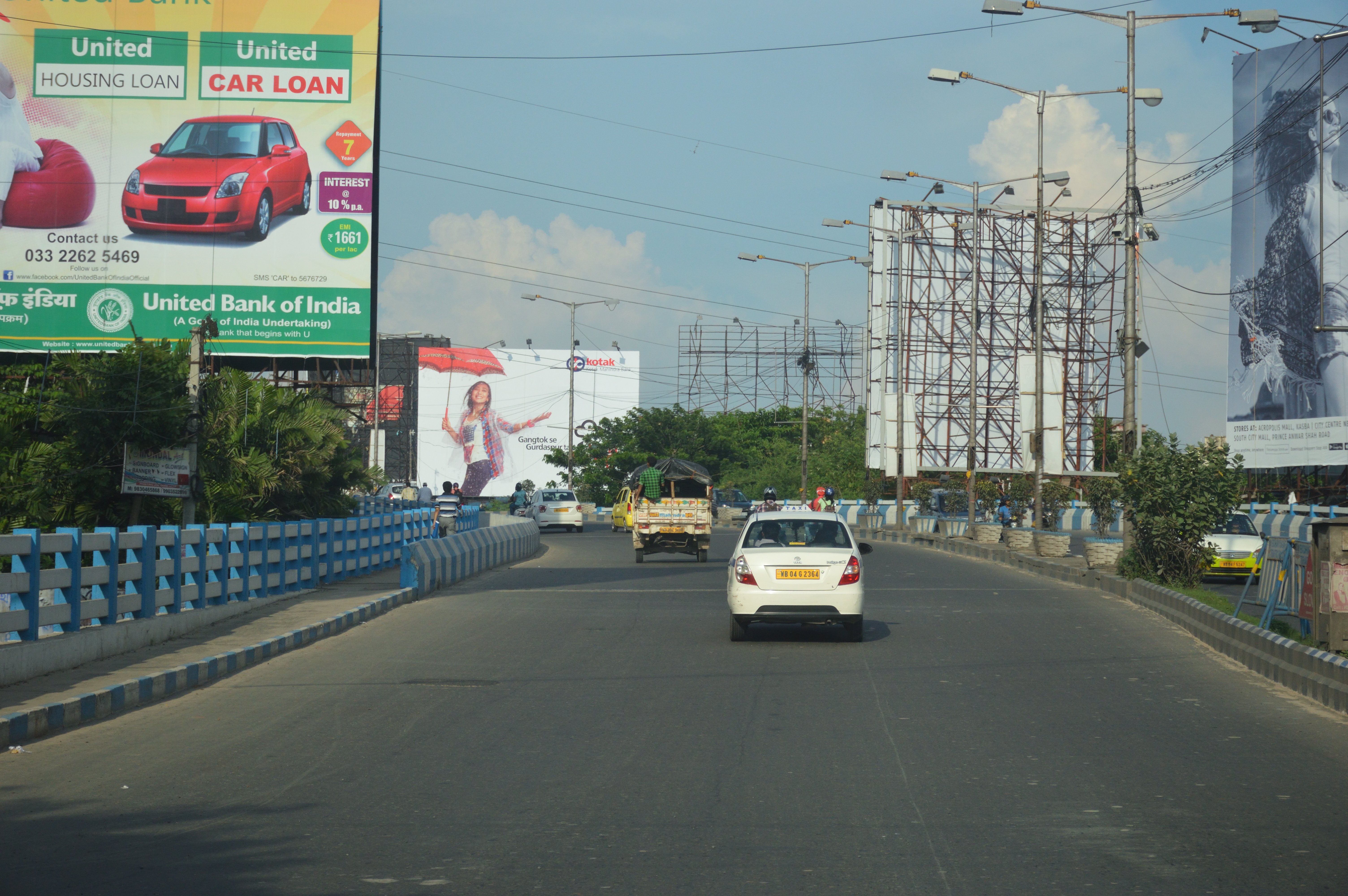 This photograph was taken in Rajarhat, North 24 Parganas.